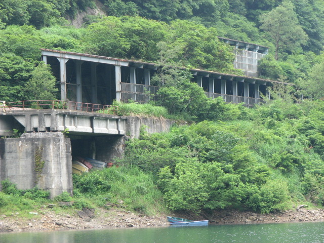 Tagokura Station on the Tadami Line in Fukushima Prefecture, Japan